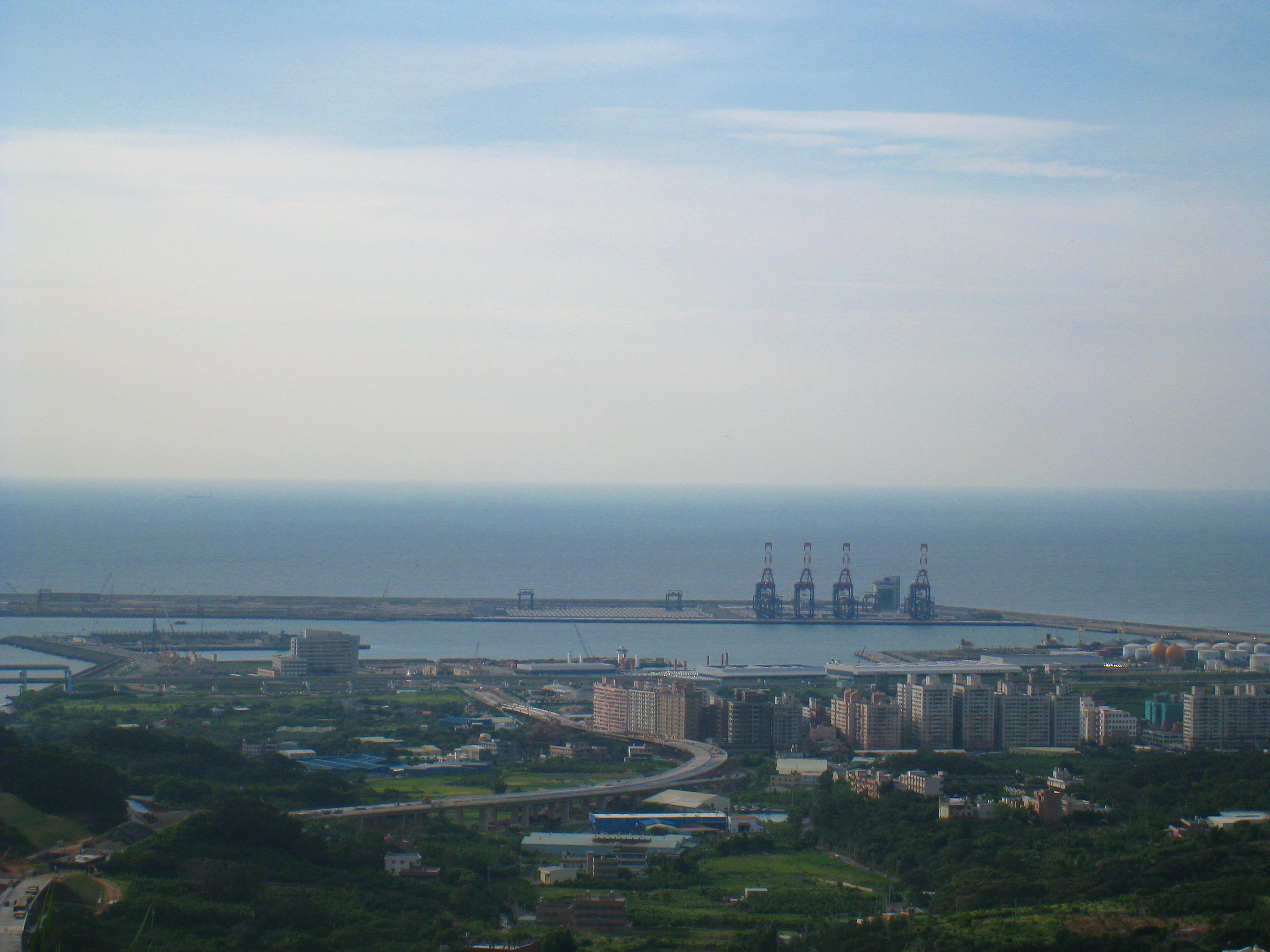 Taipei Port-2 , Taiwan